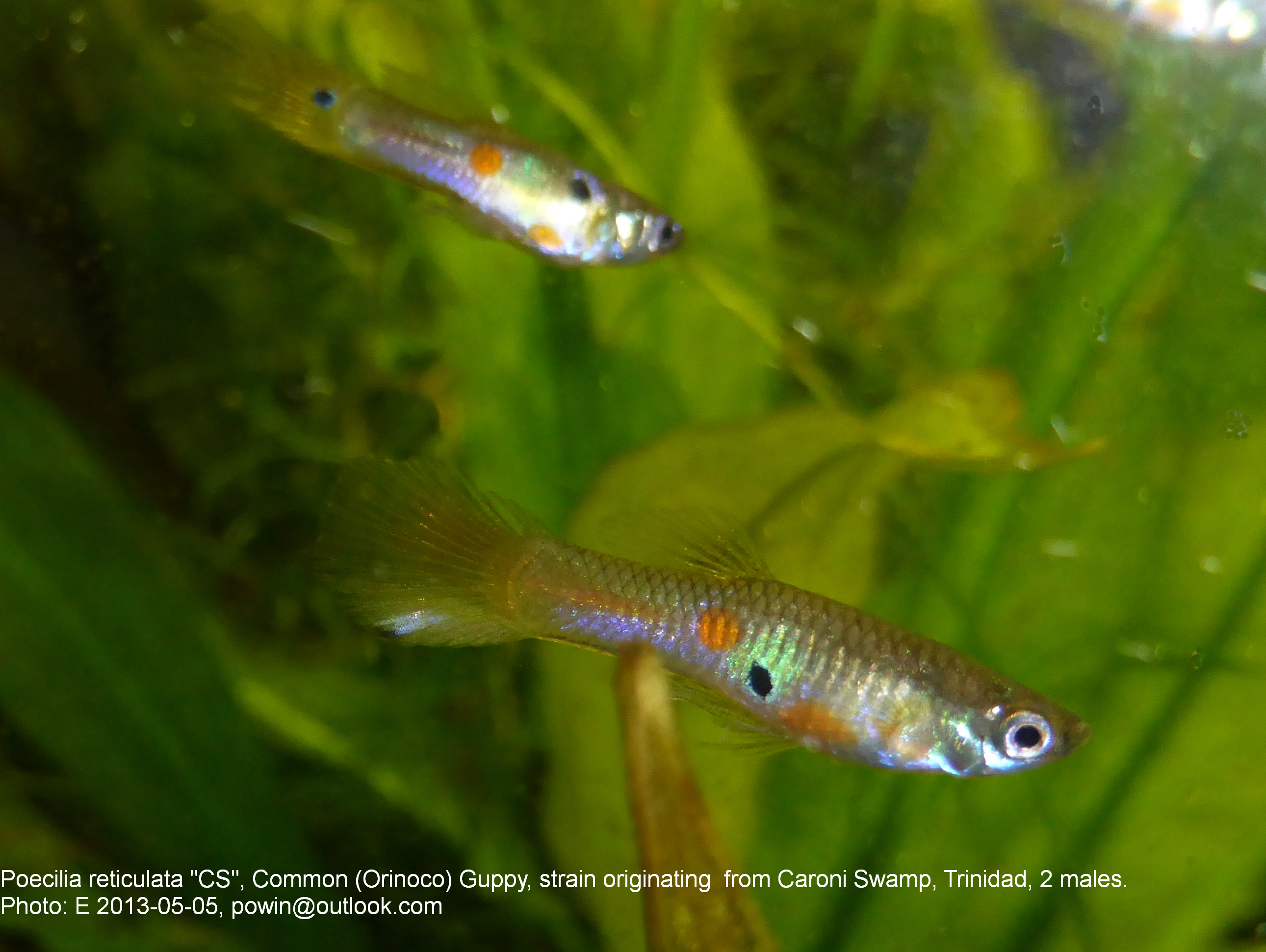 Guppy, Poecilia reticulata. Wild type (strain after more than 4 years of random breeding in the aquarium), population Trinidad, Caroni Swamp (CS; N 10° 32.013’; W 61° 26.797’; strain coll. Schories et al. 2008, see Schories et al., Description of Poecilia (Acanthophacelus) obscura n. sp., (Teleostei: Poeciliidae), a new guppy species from western Trinidad, with remarks on P. wingei and the status of the “Endler’s guppy”, page 36 and Table.1, online: ). 2 males Photo: EHL 2013-05-05.